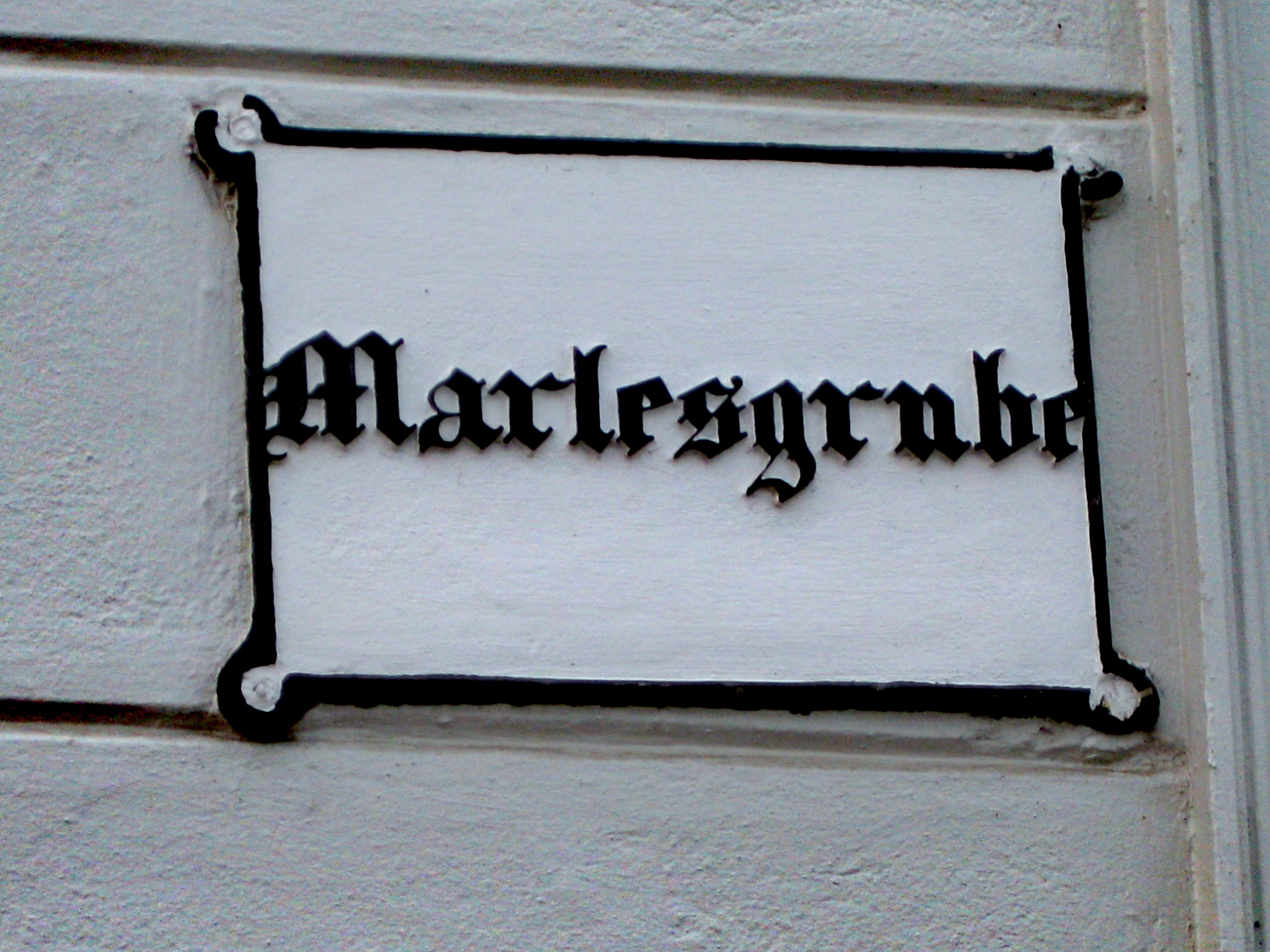 Street sign Marlesgrube in Lübecks old town.